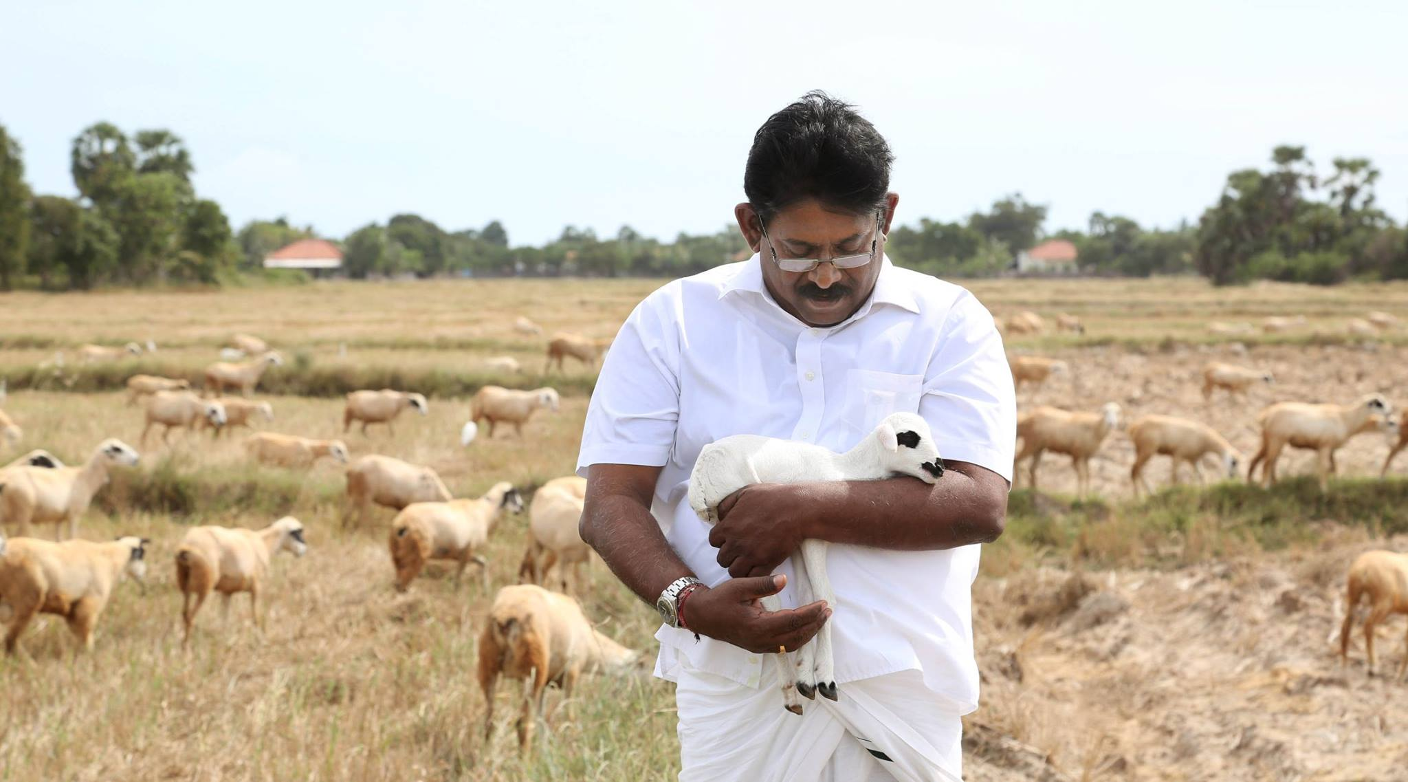 Minister P. Ayngaranesan is seen with a newly born lamb in the paddy field along the Navatkuli - Sangupiddy Road on March 15, 2017.